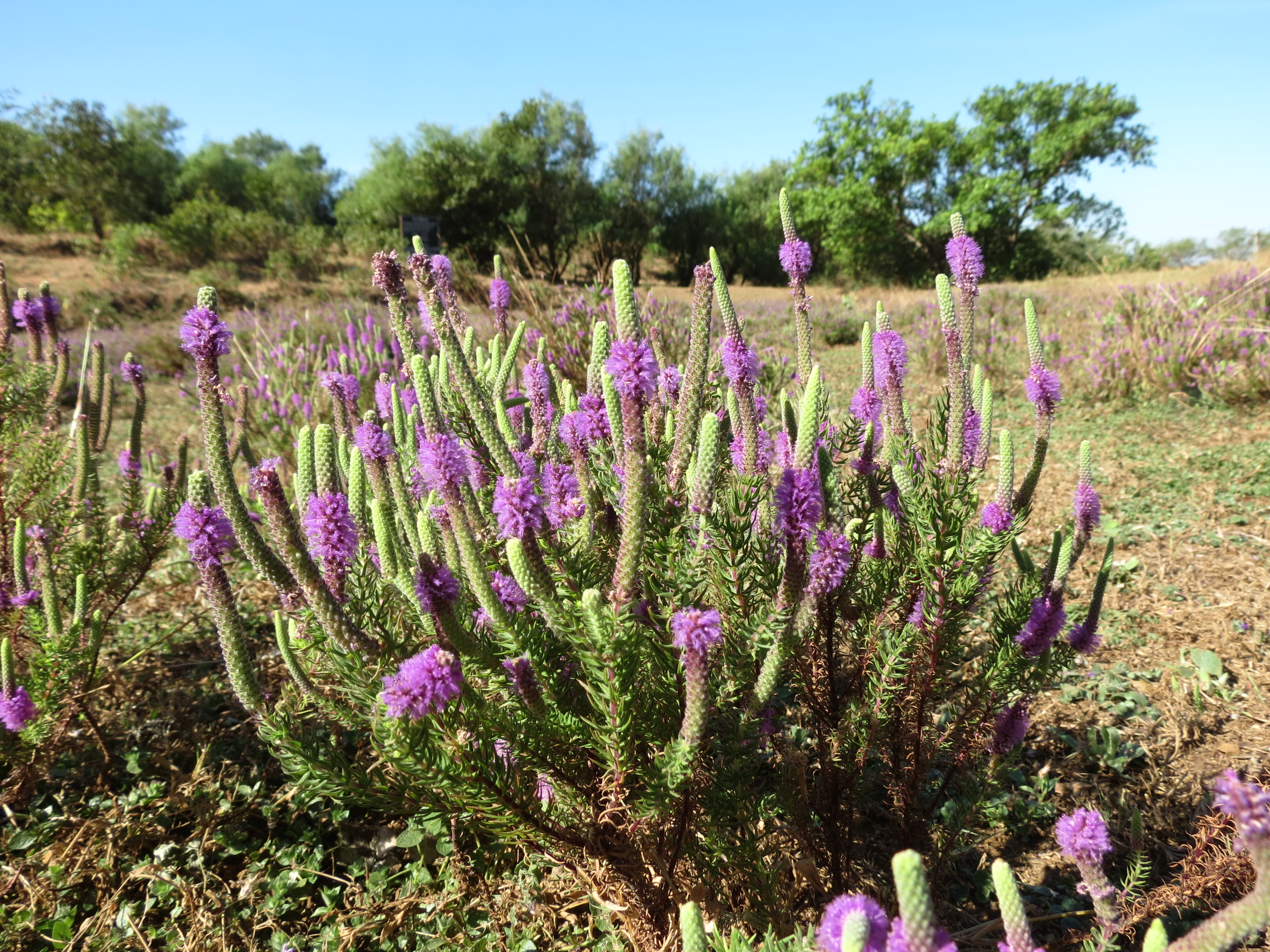 Pogostemon deccanensis